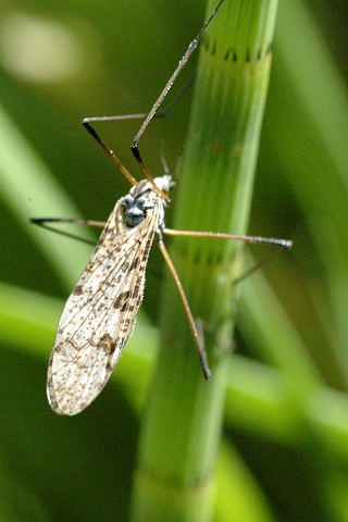 Picture taken in Commanster, Belgian High Ardennes . Species: Eloeophila maculata